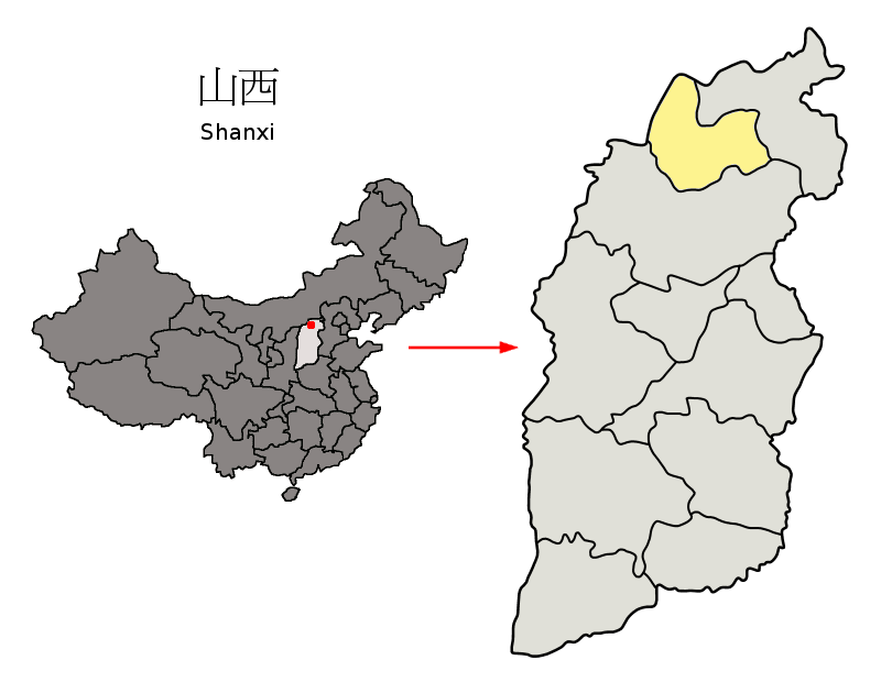 Location of Shuozhou Prefecture (yellow) within Shanxi Province of China Map drawn in december 2007 using various sources, mainly : Shanxi Province administrative regions GIS data: 1:1M, County level, 1990 Shanxi Counties map from